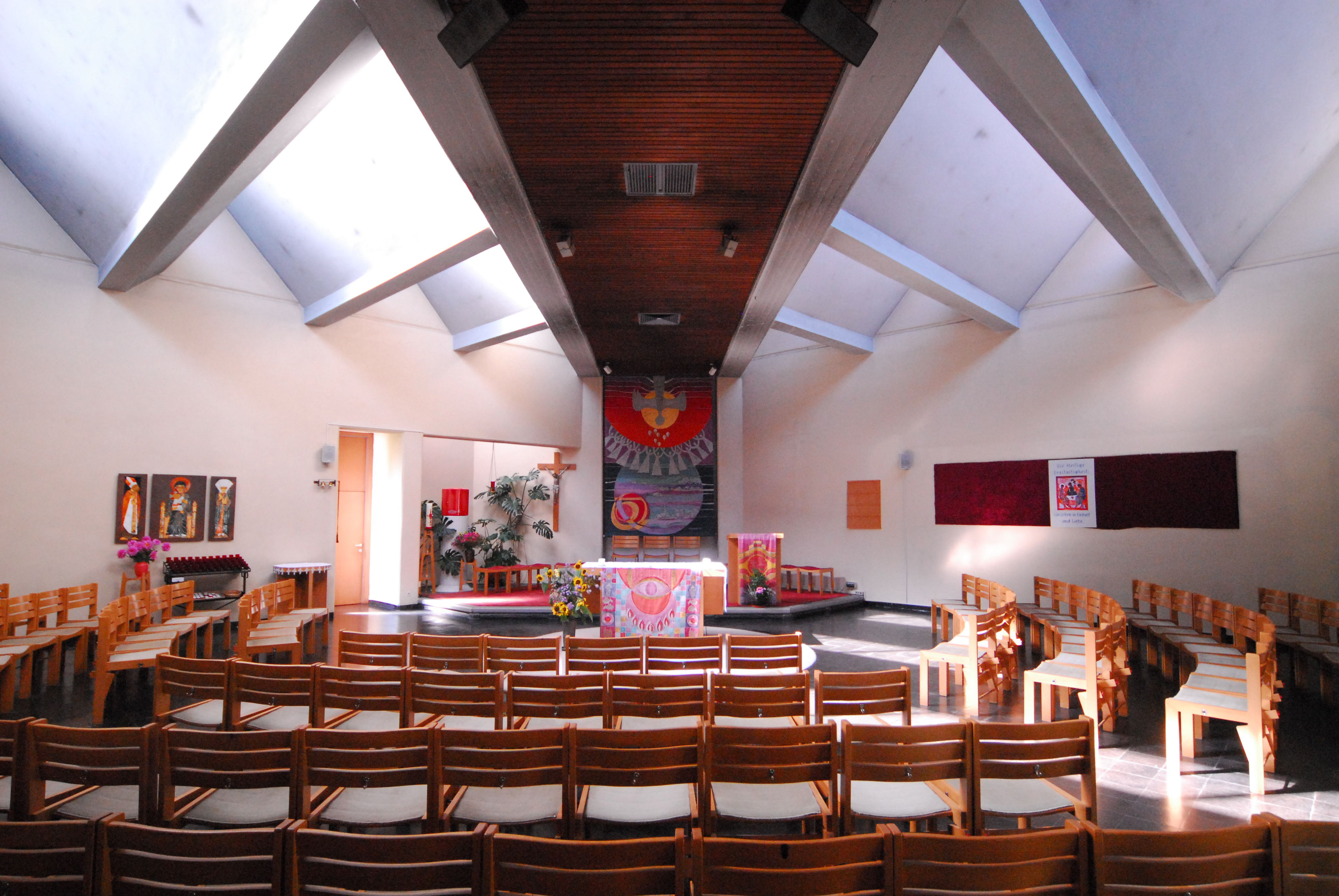 Interior of the parish church “Saint Hemma” in the Feldkirchner Strasse in the 5th district "Sankt Veiter Vorstadt" of Carinthia`s capital Klagenfurt, Carinthia, Austria